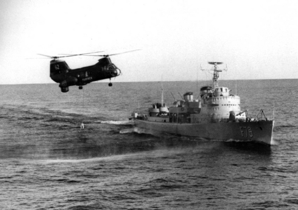 The Swedish destroyer HMS Karlskrona and helicopter.